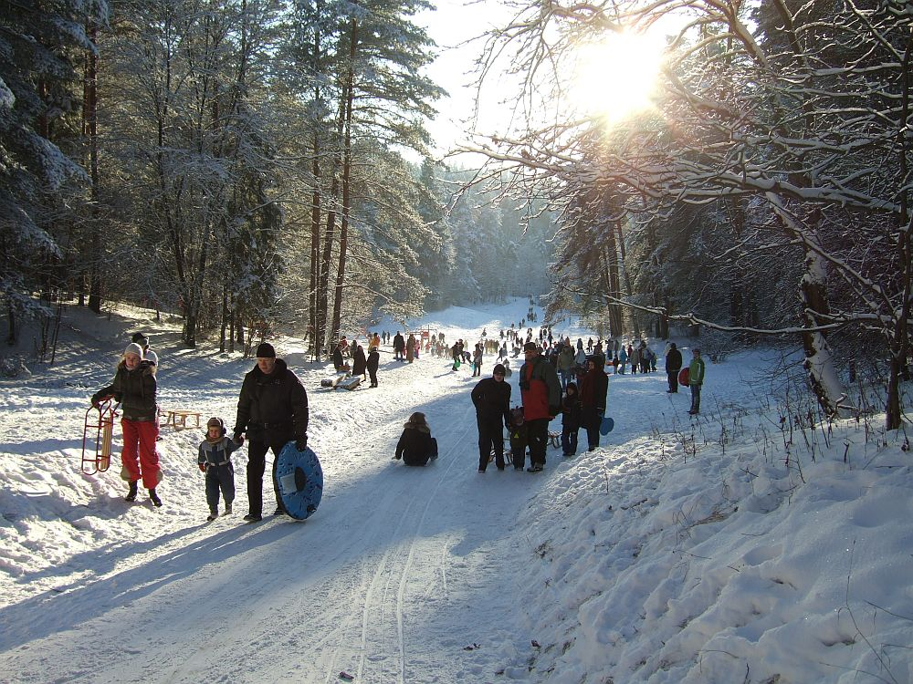 Sapieginė, part of Vilnius (Lithuania)